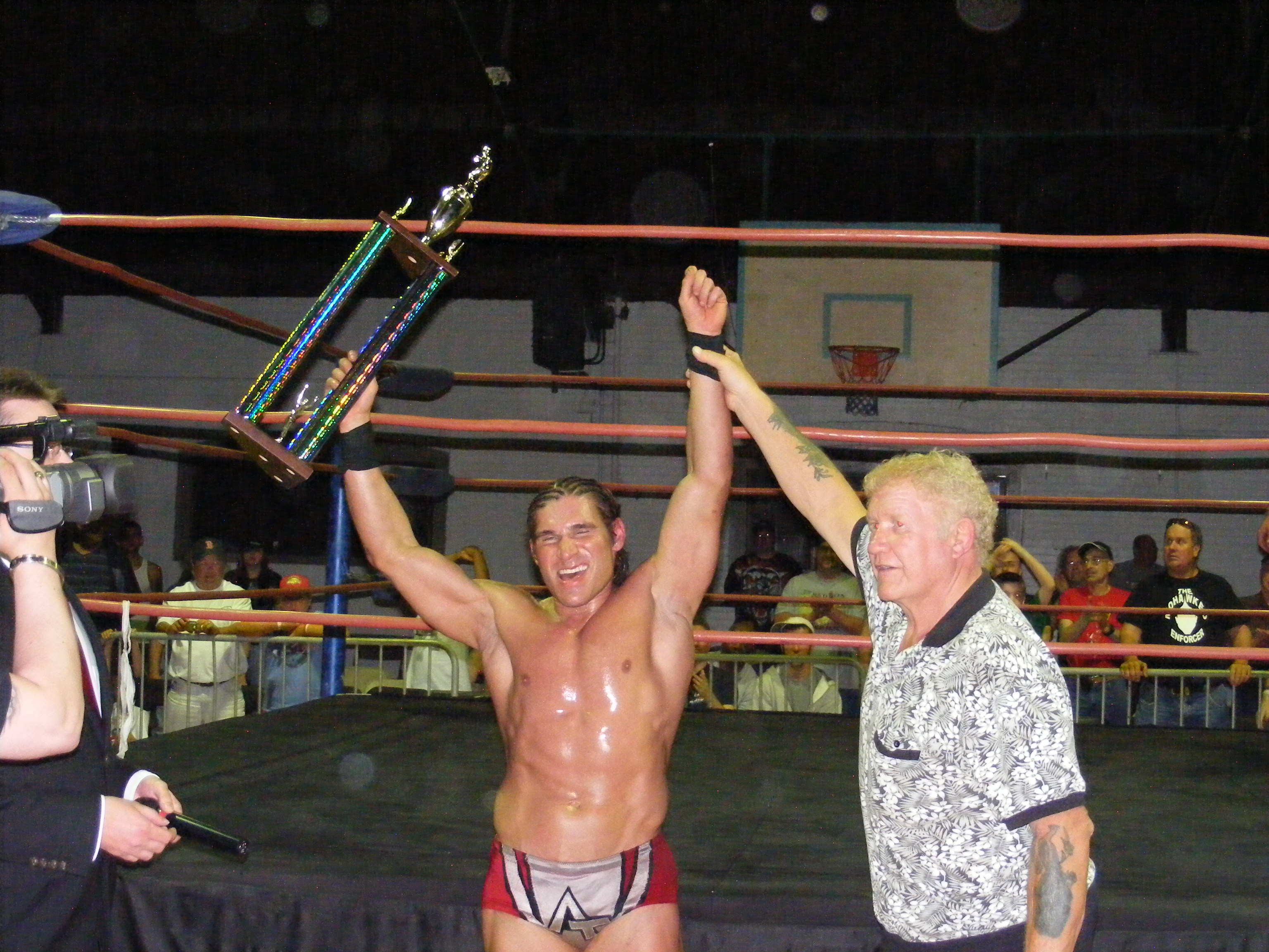 Professional wrestler Antonio Thomas (real name Thomas Matera) after winning the annual New England Championship Wrestling Iron 8 Tournament on May 30, 2009